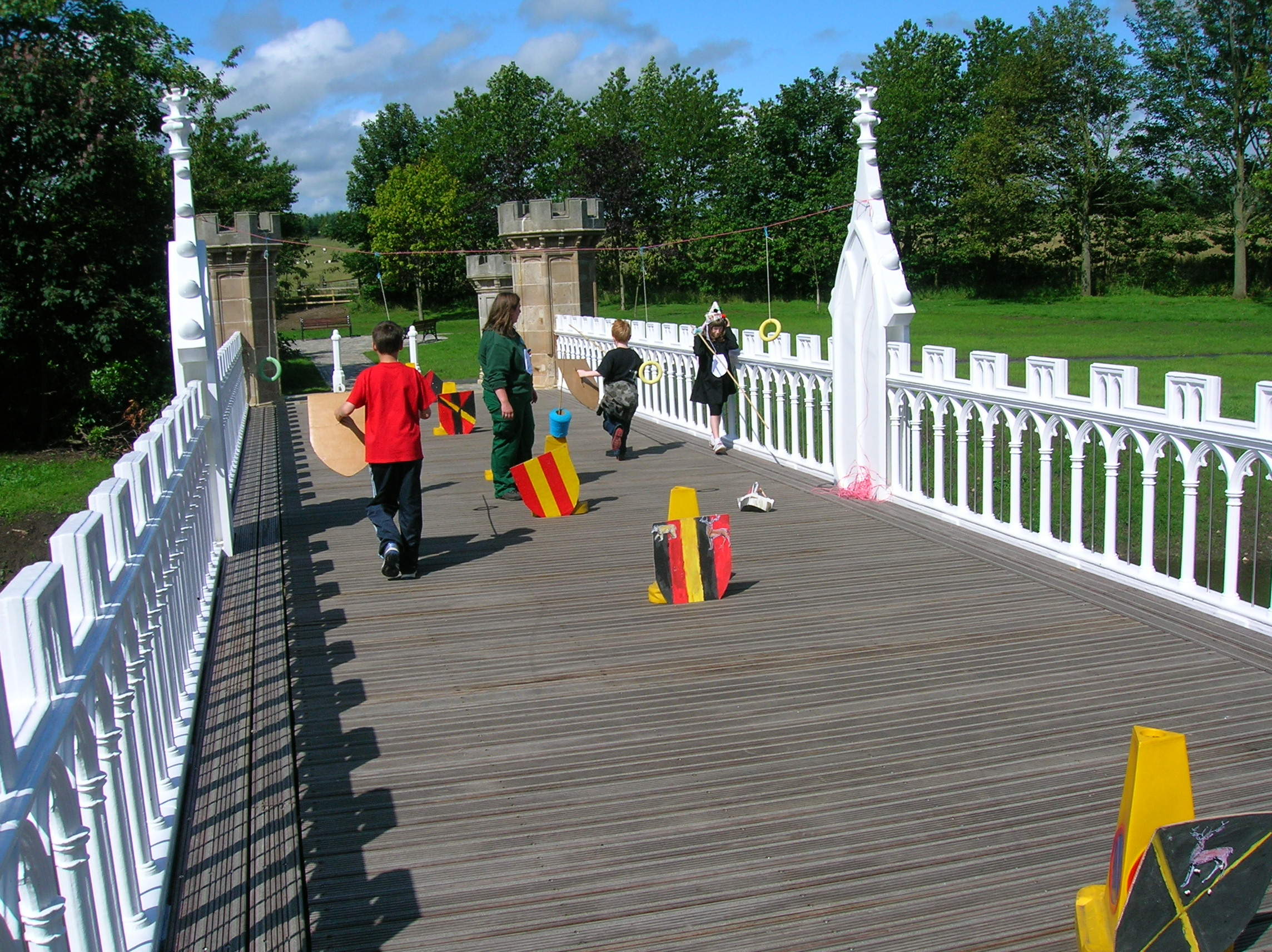 Jousting activities on the Eglinton Tournament bridge, Kilwinning, Ayrshire, Scotland.